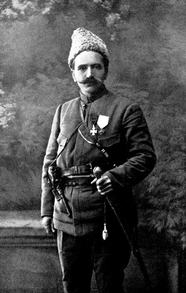 Original caption: Andranik: The commander of the first battalion of Armenian Volunteers